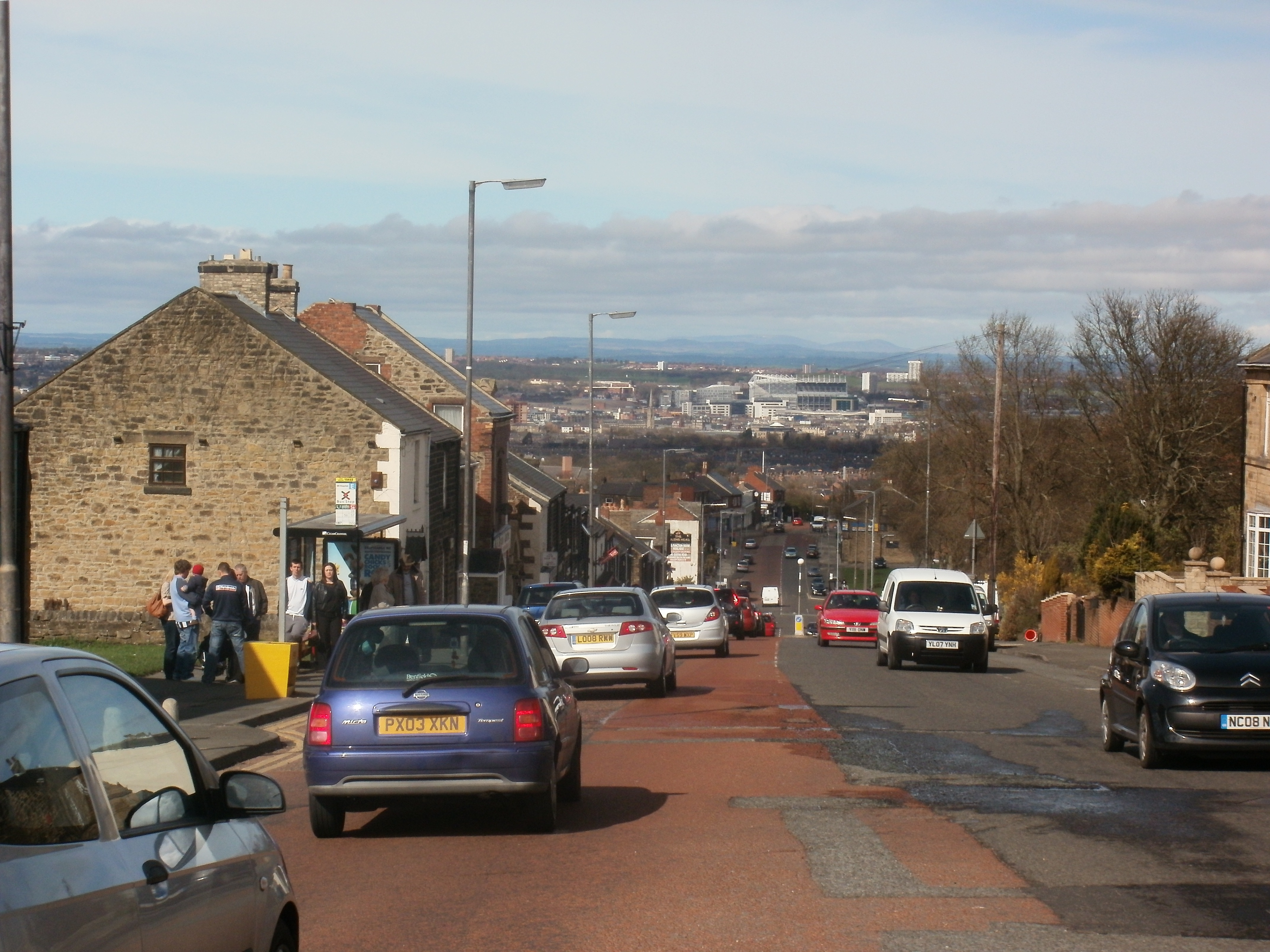 View from Sheriff's Highway, Sheriff Hill looking into Newcastle-upon-Tyne. St James' Park, home of Newcastle United FC, is clearly visible from almost three miles away.